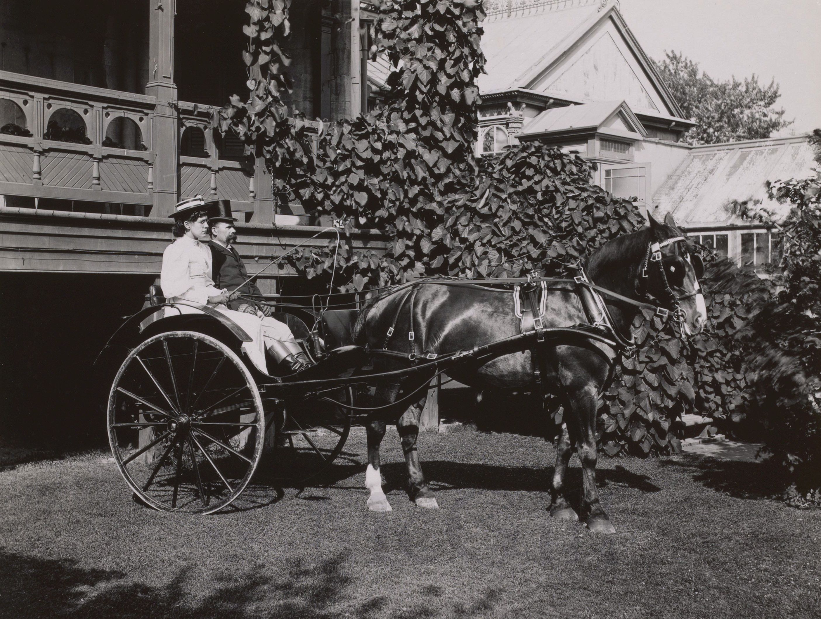 Photograph : Miss Meighan's horse and carriage, Montreal, QC, 1895, Wm. Notman & Son, 1895, 19th century, Silver salts on glass - Gelatin dry plate process. 20 x 25 cm, Purchase from Associated Screen News Ltd., II-111123, McCord Museum.